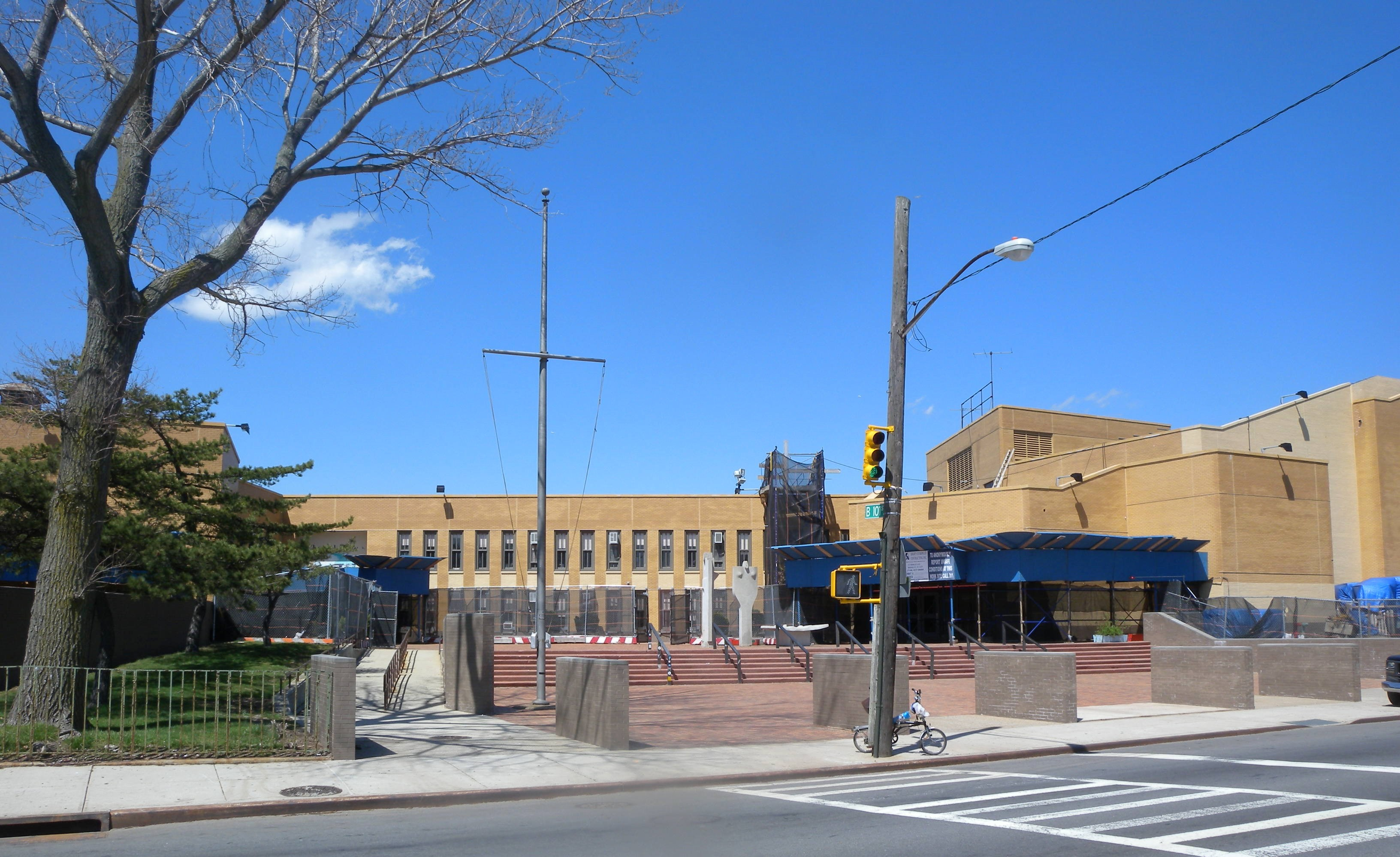 Looking north across Beach Channel Drive from Beach 101st St at Channel View School on a sunny midday.